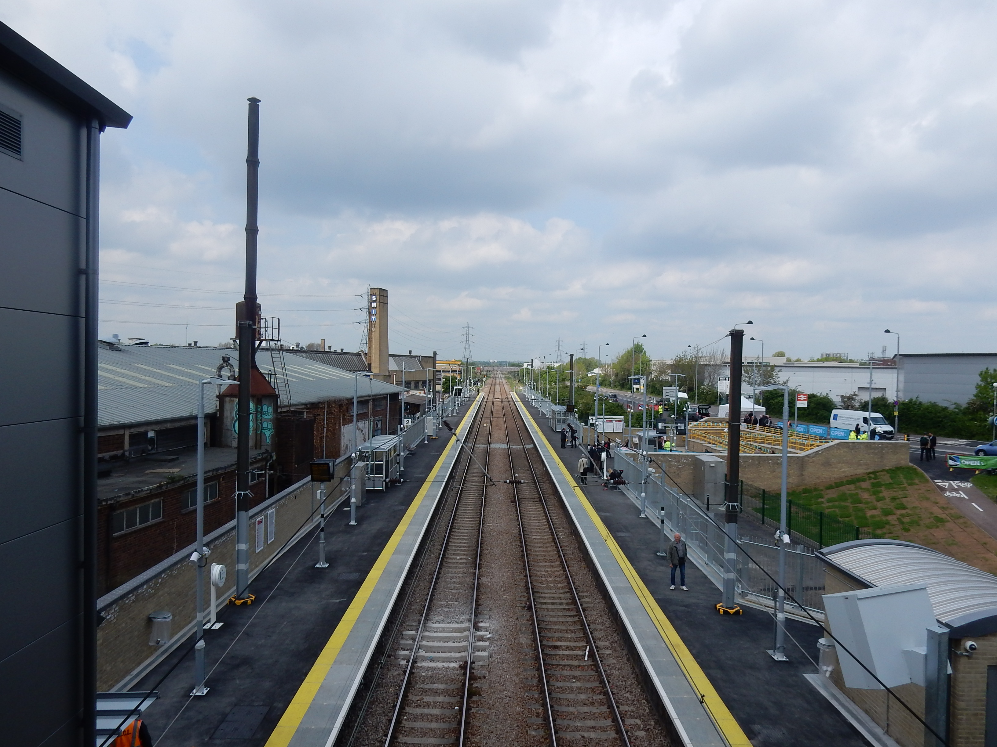 Lea Bridge station, soon after re-opening in May 2016. The station had been closed since 1985.